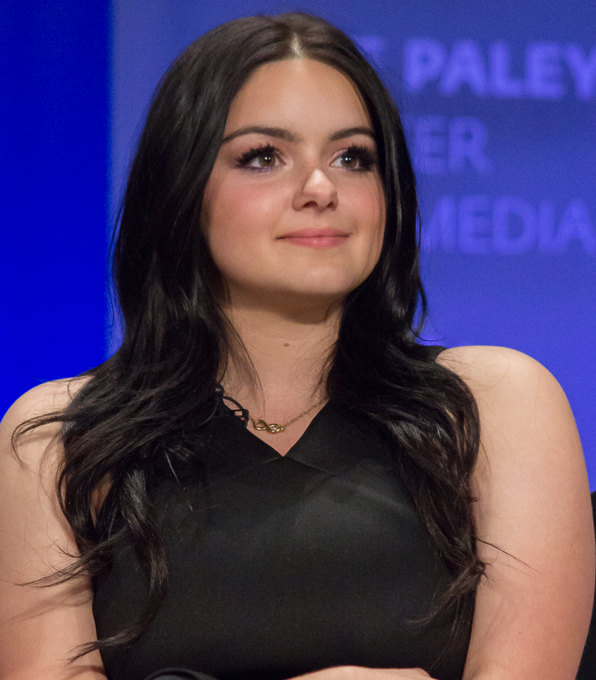 Ariel Winter at 2015 Paleyfest for Modern Family